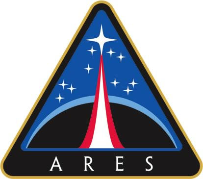 NASA's Ares launch vehicle logo